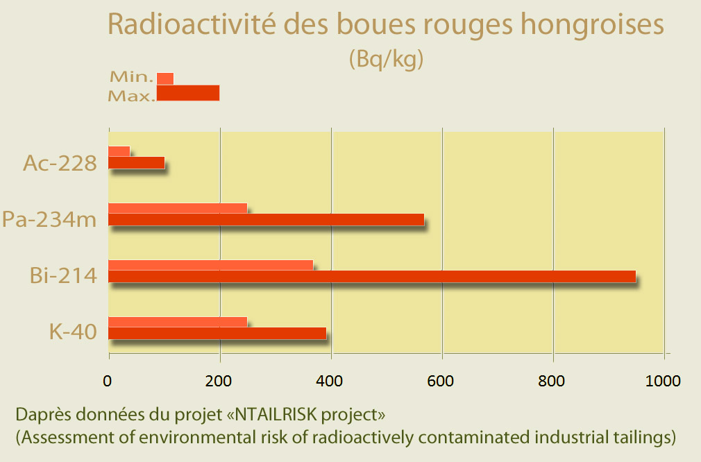 Graph describing the radioactivity (gamma radioactivity, in Bq x kg -1 ) of red mud from the extraction of aluminum from bauxite mined in Hungary (radioactivity minimum and maximum). In the process of extracting alumina, naturally occurring radionuclides in the bauxite are concentrated in the waste metal aluminum companies called "red mud" which can be slightly more radioactive than the ore. These data come from the international INTAILRISK (Assessment of Environmental Risk of radioactively contaminé industrial tailings), financed by Europe, which also looked at the radioactivity of coal ash and slag (also more or Radioactive least according to their origins and have been stored in tanks as sludge) These measures have focused on four radionuclides: Ac-228 (natural isotope of the actinium is a product of the decay chain of uranium 235. It is highly radioactive, 150 times that of radium.) Pa-234m (an isotope of the Protactinium); Bi- 214 ( Bismuth 214, which is radioactive, but also toxic) and K-40 ( Potassium 40, natural isotope of potassium, highly bioavailable via some plants. Its half-life is 1.248 billion years ago)